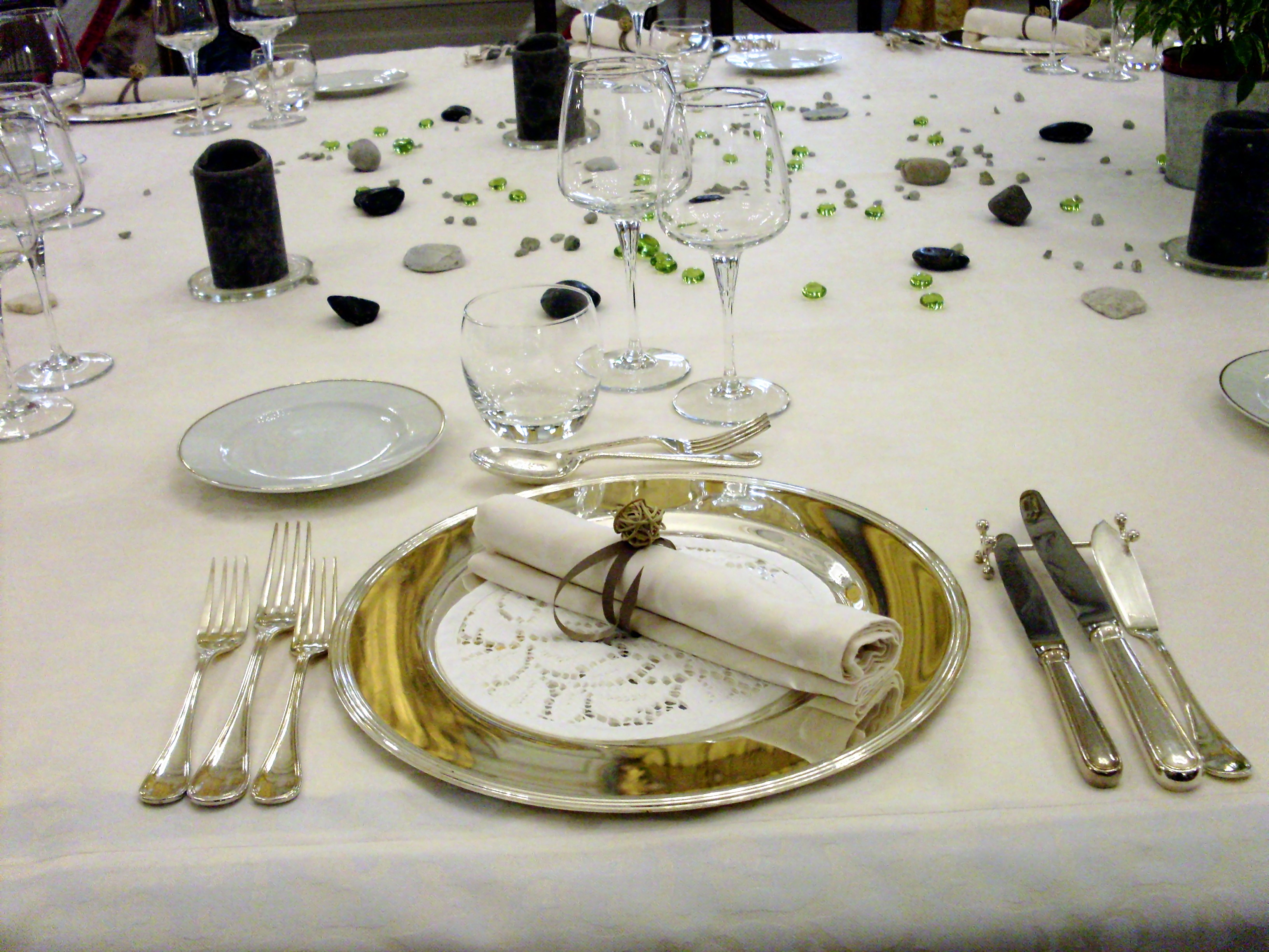 Table laid out for banqueting in the Palais Niel in Toulouse. Glasses: the small glass is for water, the larger one behind it is for red wine, and the smaller wine glass for white wine. The small plate beneath the glasses is the bred plate. Cutlery (from the outside toward the plate) Fish cutlery (knife and fork, the fish will be served without any sauce, otherwise it would be a fish spoon (cuillère à gourmet), meat cutlery and cheese or fruit cutlery; the ends of the knives rest on a knife rest. Upon the plate, the desert cutlery (spoon and fork).